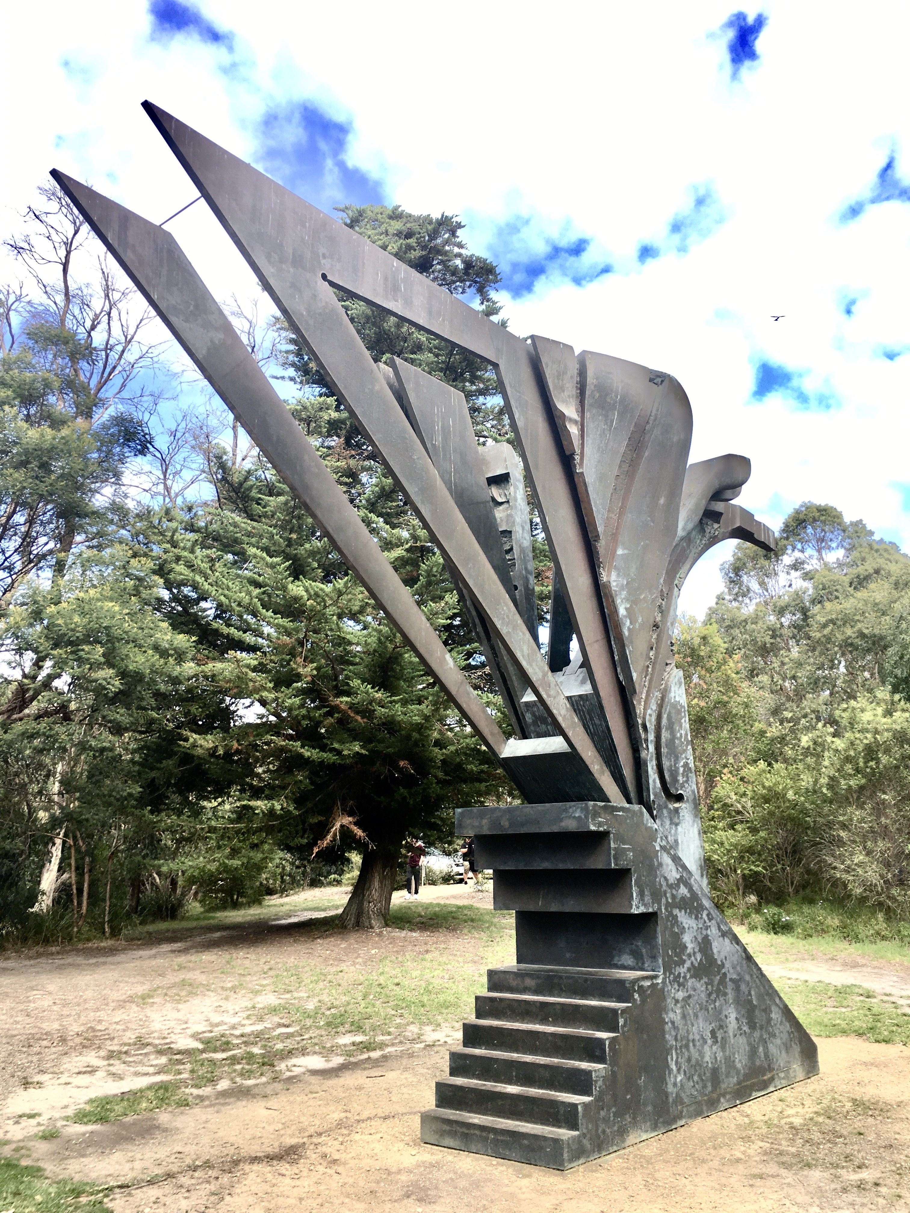 A Norma Redpath sculpture 'Paesaggio Cariatide' at McClelland